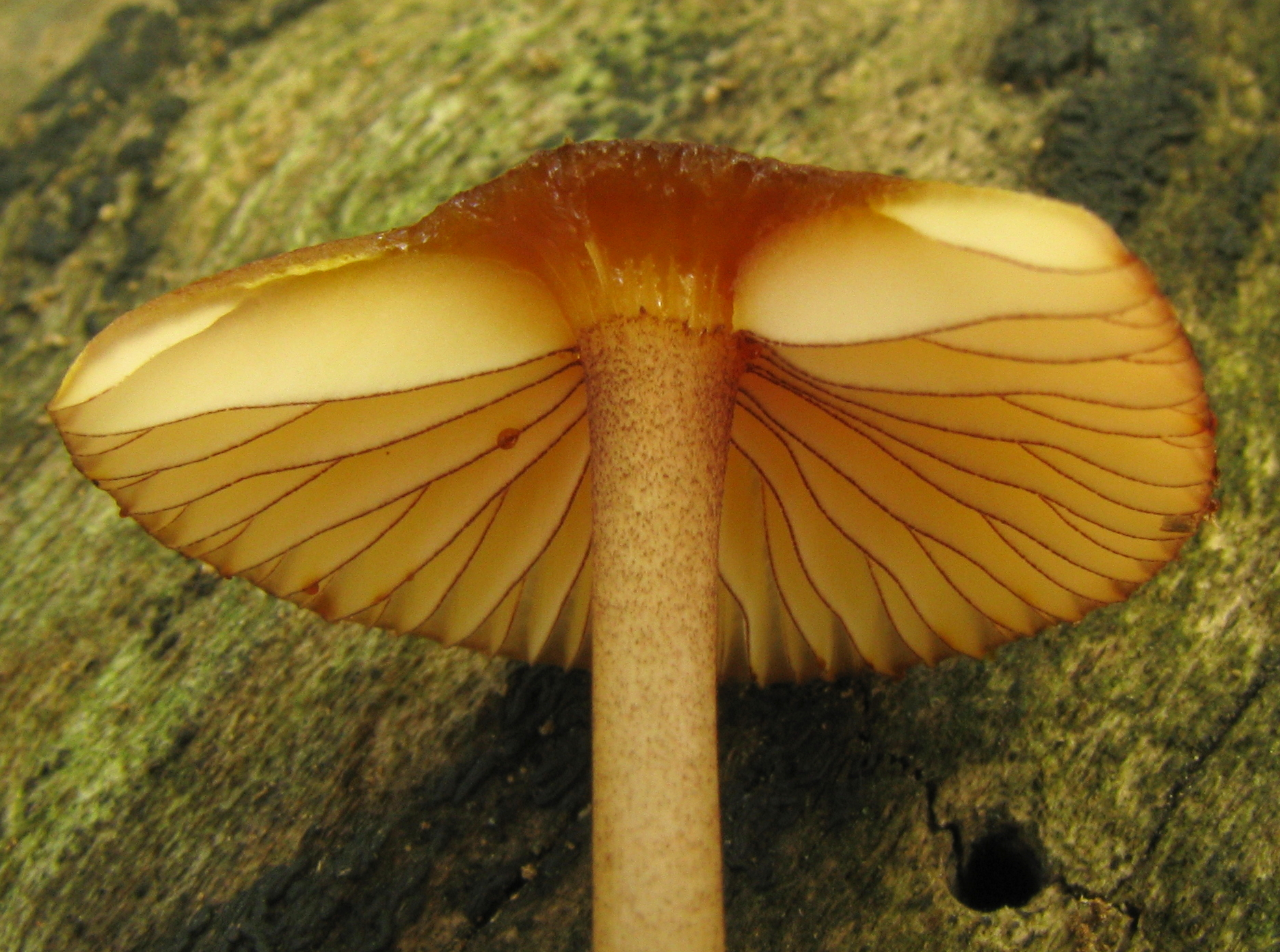 Broken cap of the mushroom Mycena atkinsoniana, showing the marginate gills and "bleeding" tissue. From a specimen collected in Barkcamp State Park, Belmont, Ohio, USA.